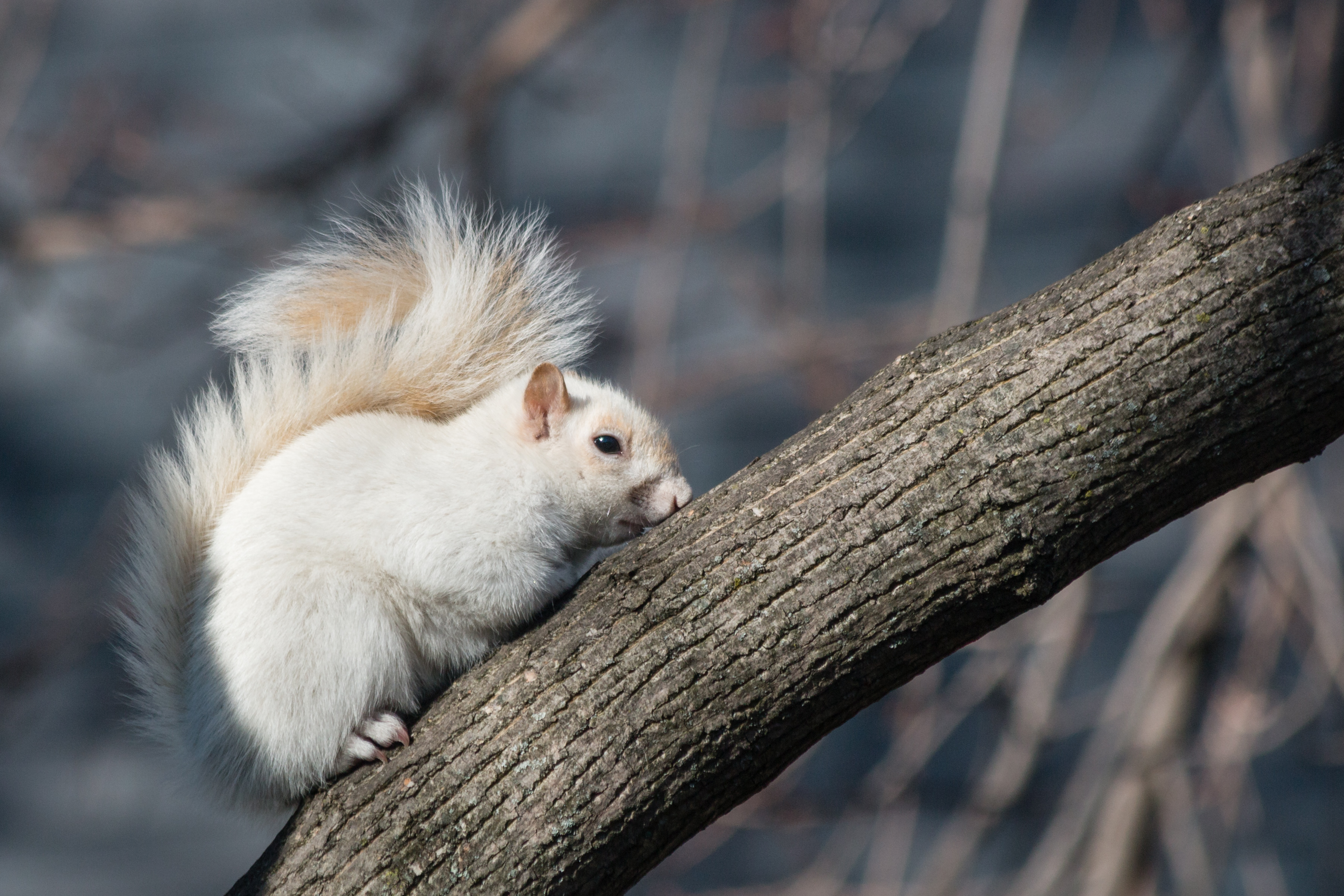 We occasionally see this white squirrel hanging around our neighborhood, and today it conveniently decided to take a little rest on a branch so I could get a picture. I kept hoping it would creep up a bit so that it was entirely in the sun, but no such luck so I'll have to live with a bit of shadow. Leucism refers to the partial loss of pigmentation in an animal, in contrast to albinism which involves a total loss of melanin (and thus leads to pink eyes in mammals). The black eye in this case is diagnostic and clearly indicates that this squirrel is not albino.